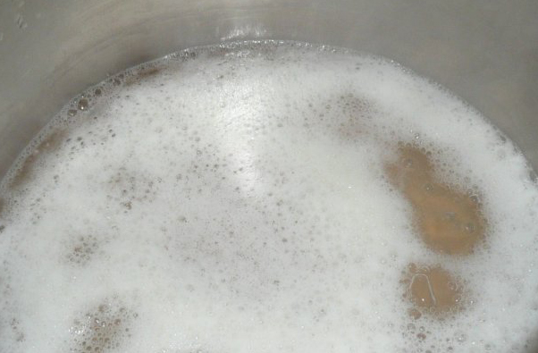 Scum when cooking peas